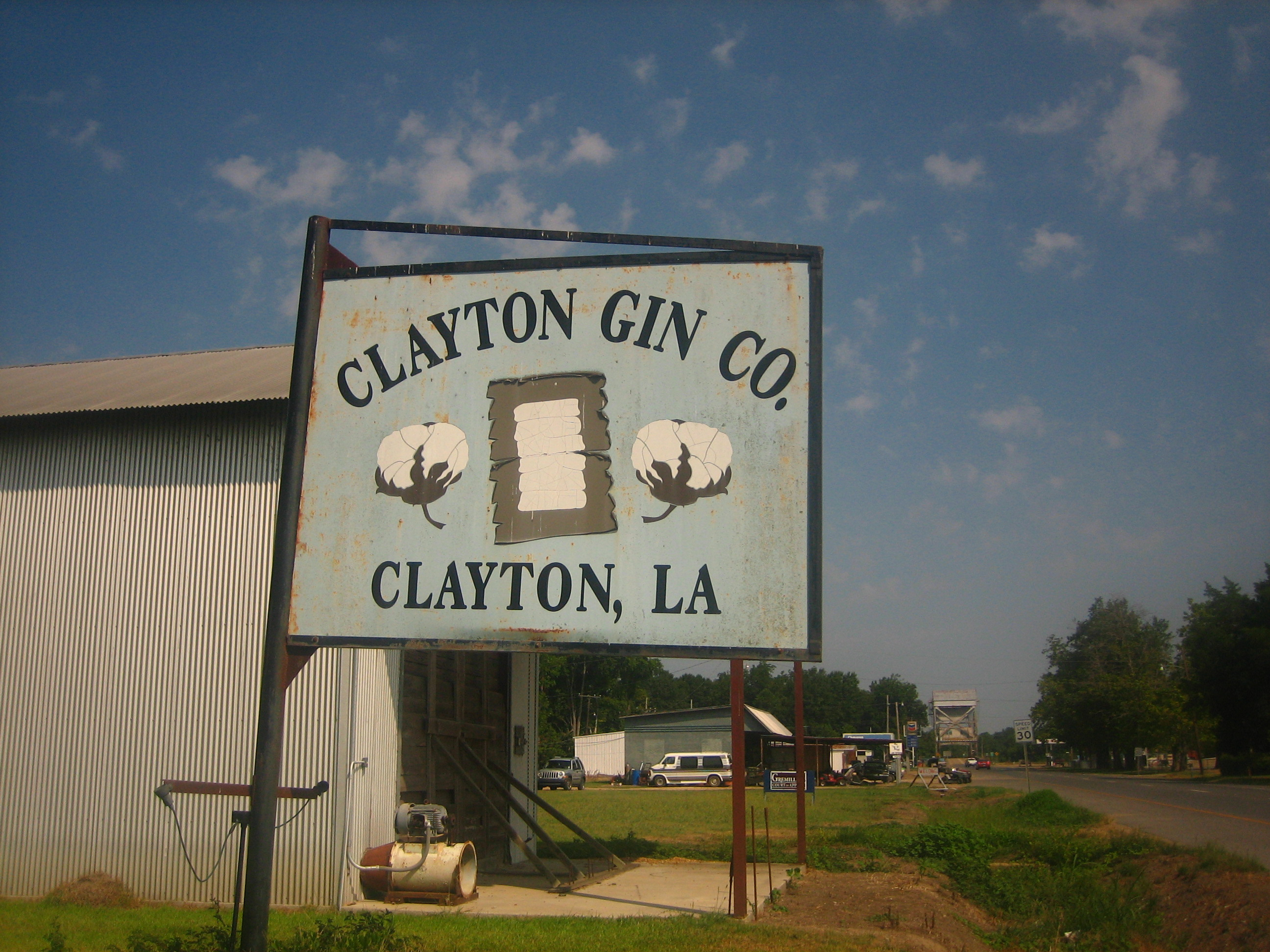 I took photo on Aug. 2, 2008.Billy Hathorn (talk) 14:49, 16 August 2008 (UTC)